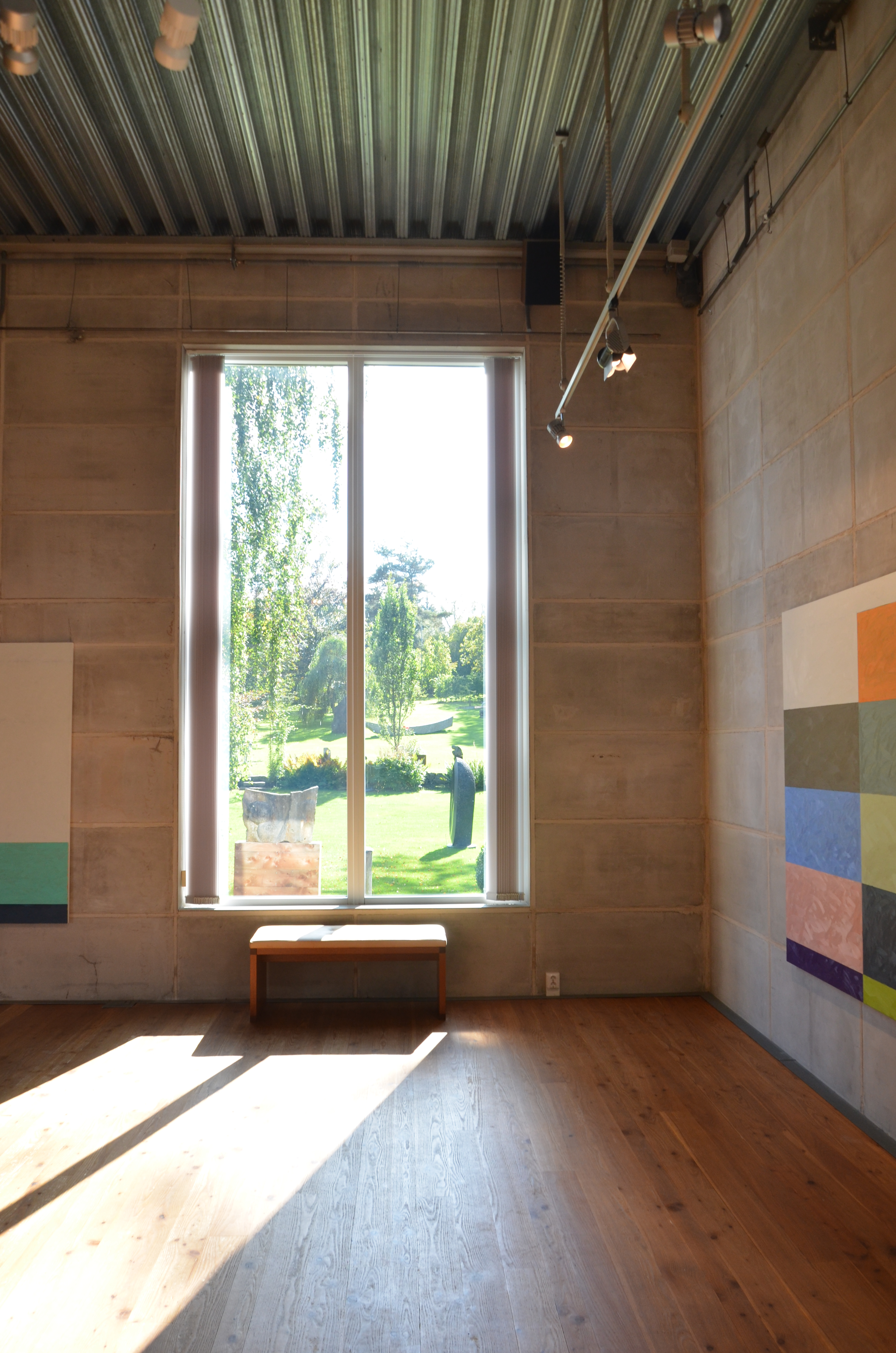 Interior of Konsthallen Hishult